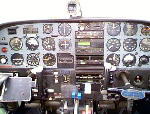 Vulcanair, Cockpit of Partenavia P68 (VH-PNT) at Jandakot Airport, Jandakot, Australia Michael L. Texler, Taken by self at Jandakot Airport, October 2005